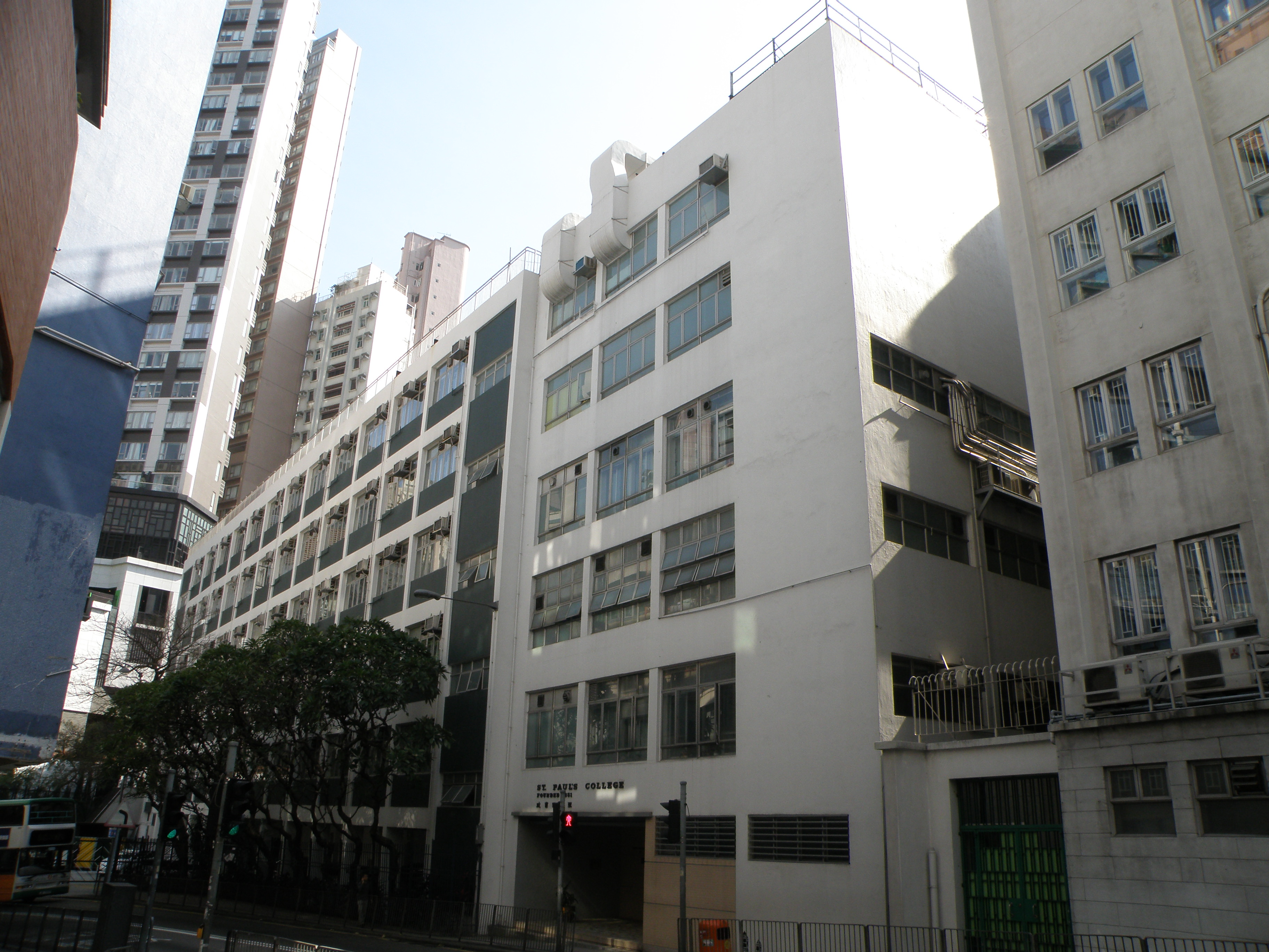 St. Paul's College in Sai Ying Pun, Hong Kong.